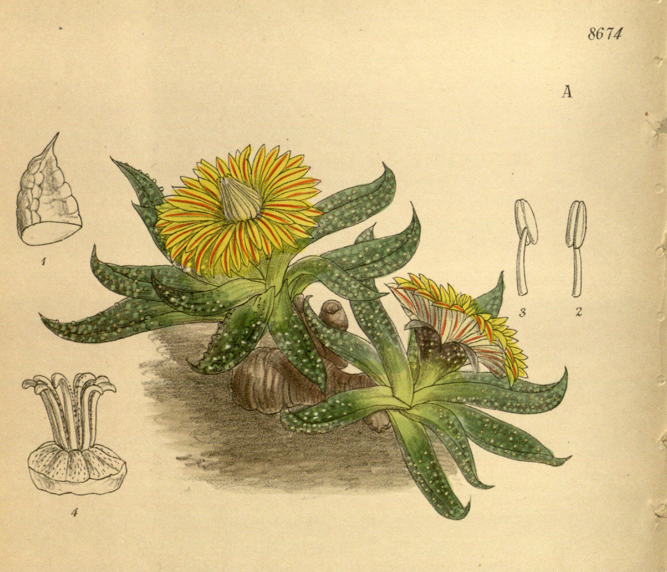 Mesembryanthemum transvaalense (= Nananthus vittatus), Aizoaceae